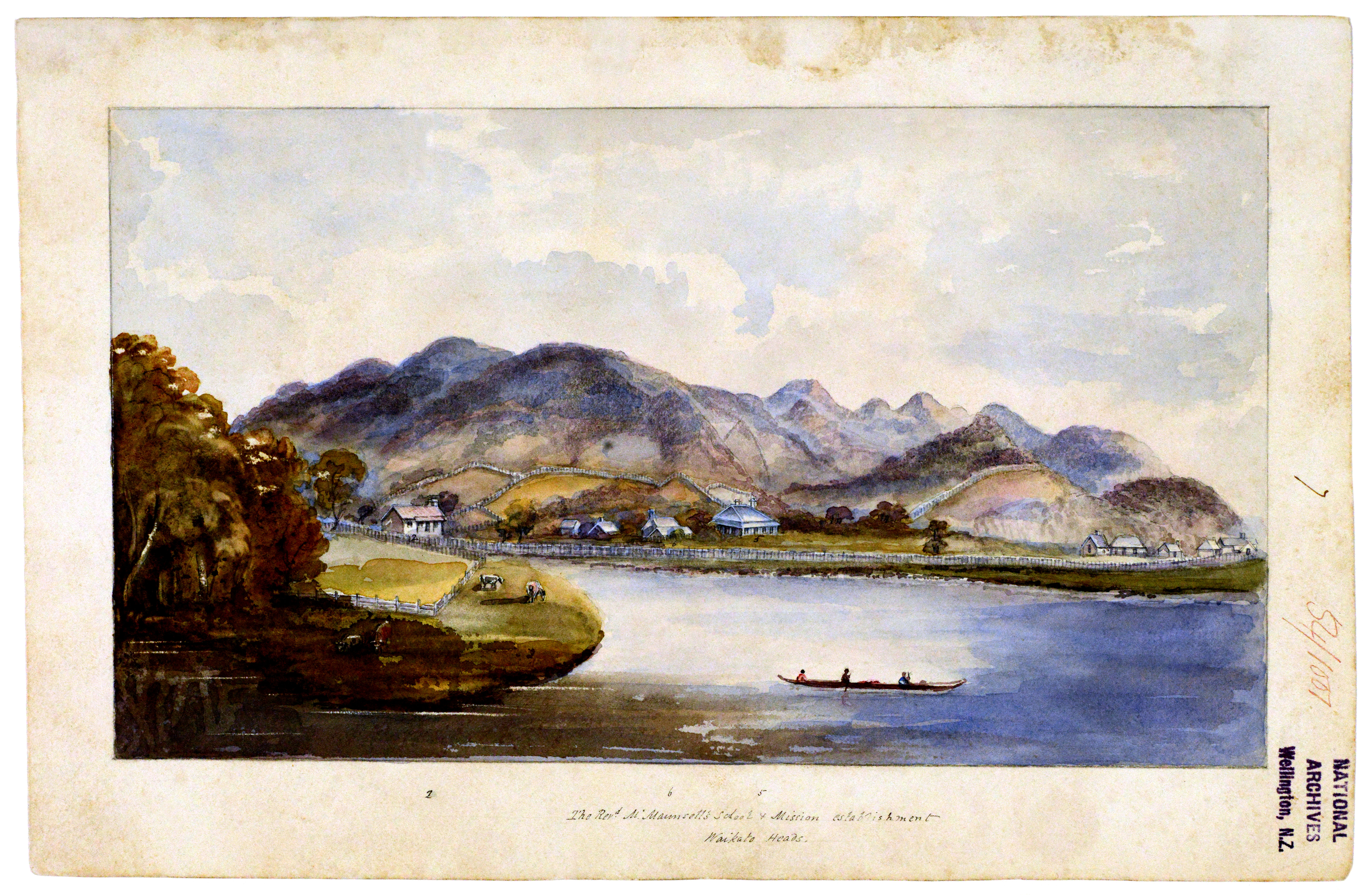 The Waikato-Manukau sheet was signed at the Mission Station of Robert Maunsell, near the mouth of the Waikato River (see the sheet here: The exact date of the hui is unknown, but Maunsell received the sheet in late March or early April 1840, and when Captain Symonds arrived after leaving Manukau on 3 April, he found the sheet had already been signed. The sheet notes that it was witnessed on 11 April. When the sheet arrived around 1500 Māori were assembling at the Mission for a meeting. Taking advantage of the gathering, Maunsell secured the signatures of 32 rangatira. They were mainly from the lower Waikato region, with some from Ngāruawāhia and further upstream. However, when Captain Symonds arrived things has soured. No blankets had been sent to Maunsell, and those who signed felt their signatures had been wrongly obtained. Symonds then distributed a number of blankets amongst the rangatira before travelling back to Manukau. This is an original painting of the Mission establishment at Waikato Heads, painted in 1854 (probably by Francis Dillon Bell). It shows the Boy’s School (1, far right), the Girls school (2, far left), the Mission Station itself (5), and the residence of Maunsell (6). Archives Reference: IA1 Box 3459/ SEP no.4 (from 1854/10010) This record is part of #Waitang175, celebrating 175 years since the signing of of te Tiriti o Waitangi. You can see other real time tweets on Twitter ( or explore the Waitangi 175 album here on Flickr. Material from Archives New Zealand